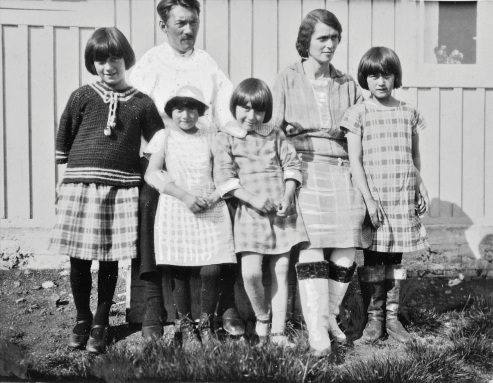 Pastor Peter Rosing with his wife and daughters, Angmagssalik 1930. Peter Rosing, Svend Peter Kristian Rosing, 9.1.1892-27.8.1965, painter. Born in Godthåb, died in Jakobshavn. R. graduated from Godthåb Seminary in 1915 and after training in Denmark he worked as a catechist until he in 1918 was ordained as a priest in Egedesminde, 1920 in Godhavn. In 1922 he was sent to East Greenland to replace his father as a missionary in Angmagssalik which he in 1934 continued his work among the newly baptized East Greenlanders